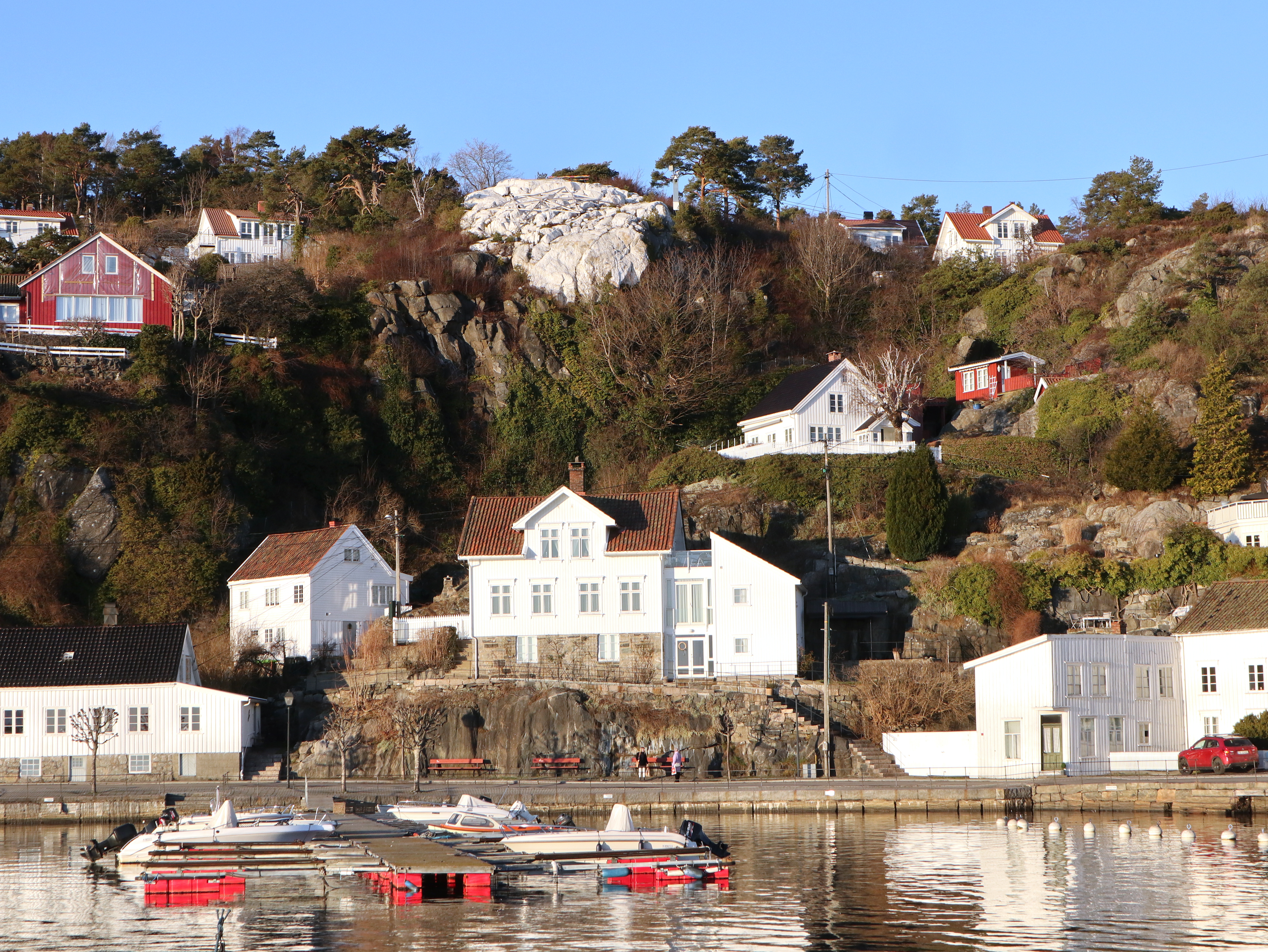 Risørflekken in Risør